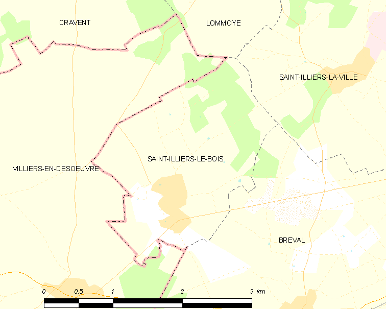 Map of French municipality Saint-Illiers-le-Bois